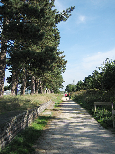 Milcote Station. The up platform, all that remains of the former Milcote Station on the GWR line from Cheltenham to Stratford-on-Avon. This is now part of The Greenway, a level (ish!) cycle ride of about 6 miles. Milcote is a hamlet, the nearest village being Weston-on-Avon, about a mile and a half away.